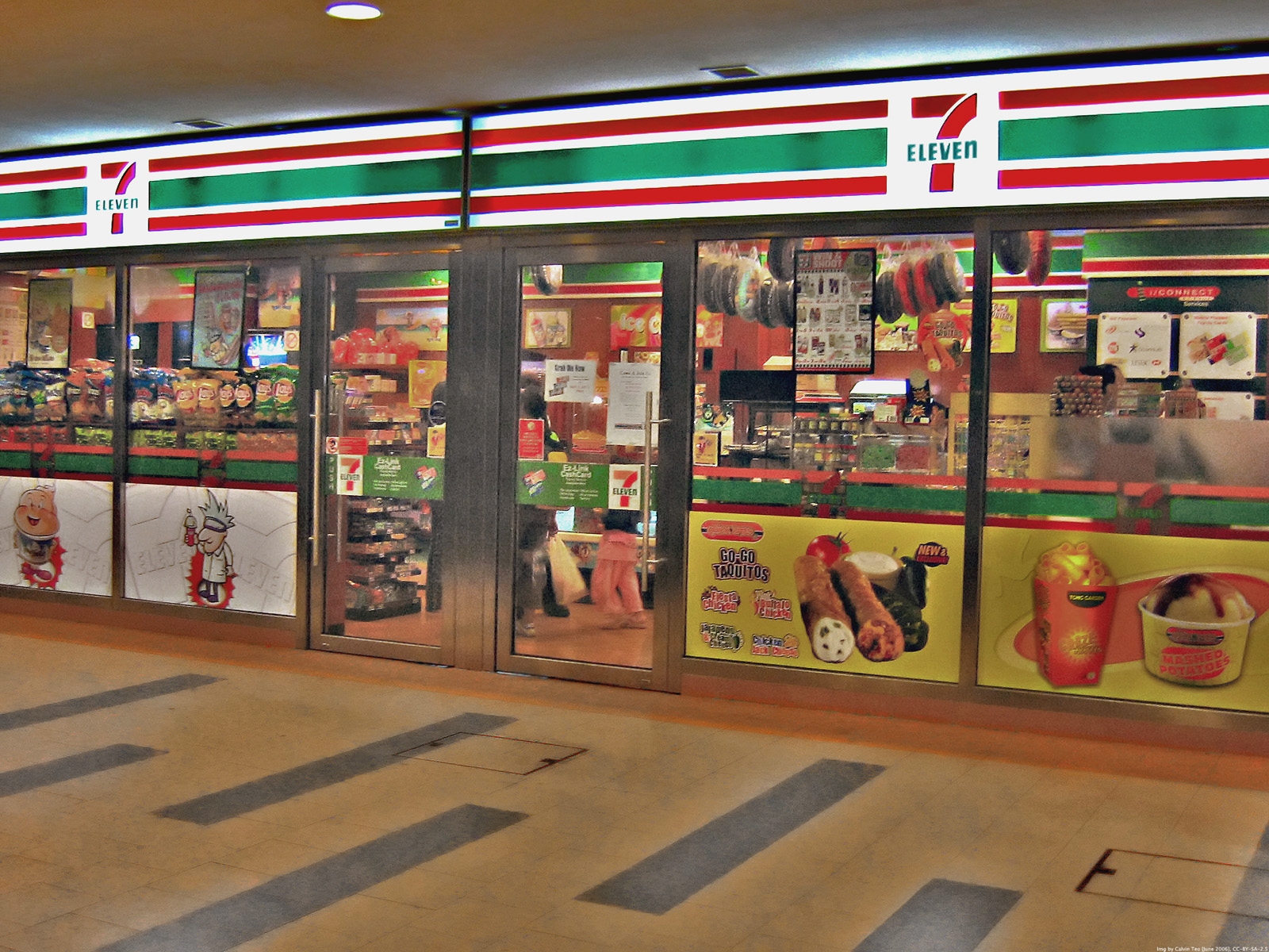 A 7-Eleven outlet in Pasir Ris, Republic of Singapore Img by Calvin Teo, June 2006